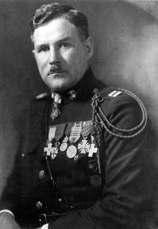 Captain Louis Cukela, USMC (Photographed circa 1921-1930. Then-Sergeant Cukela was awarded the Army and Navy Medals of Honor for "extraordinary heroism" in combat on 18 July 1918 during the World War I Battle of Soissons. This photograph shows him wearing the Army Medal of Honor around his neck, and the Navy Medal of Honor ("Tiffany Cross" pattern) below the Army Medal, on the far left of the row of medals on his chest.